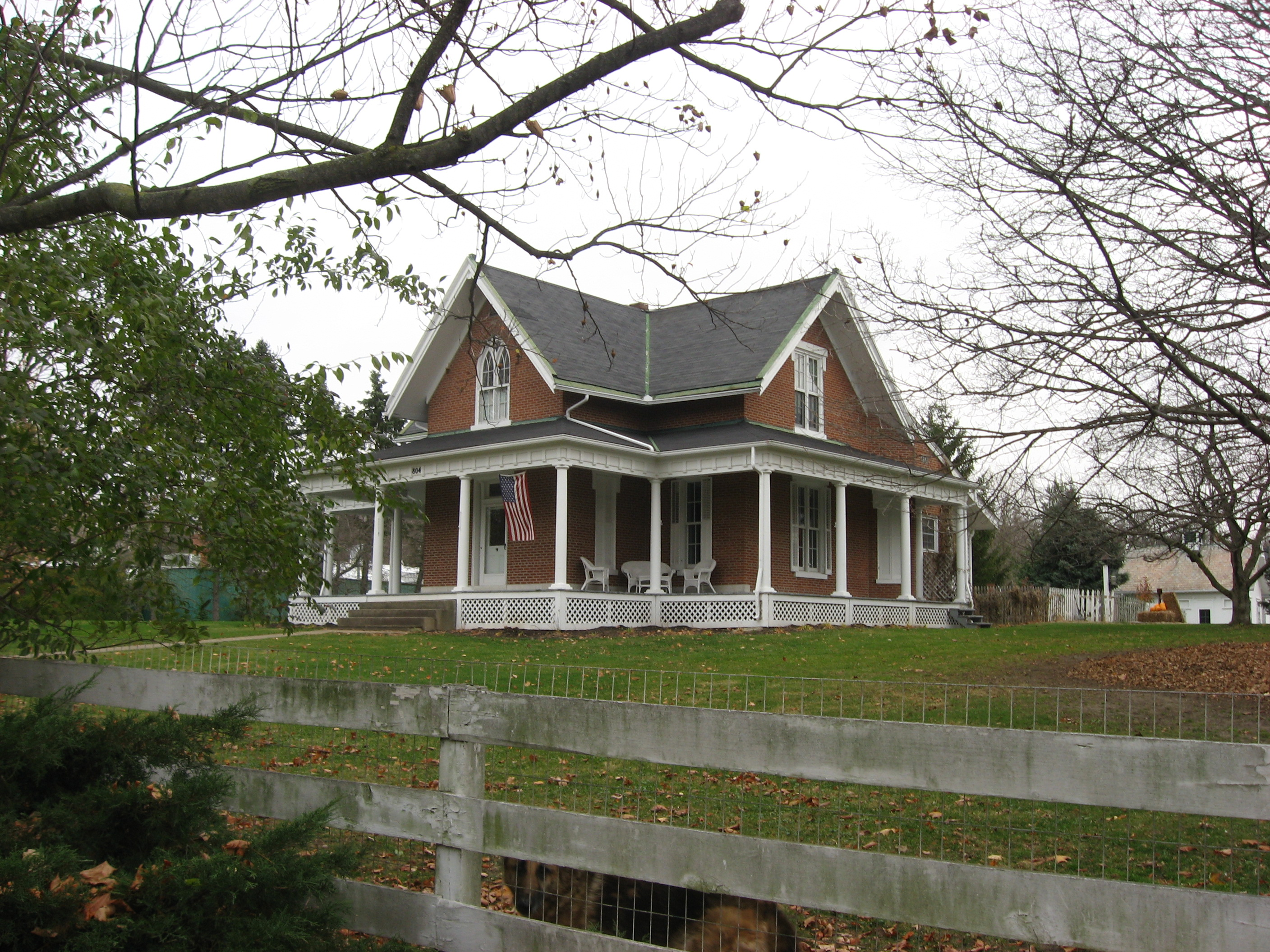 House at the Fulton Farm, located at 804 S. Brooklyn Avenue in the southeastern corner of the city of Sidney, Ohio, United States. Built in 1848, the farm complex is listed on the National Register of Historic Places.